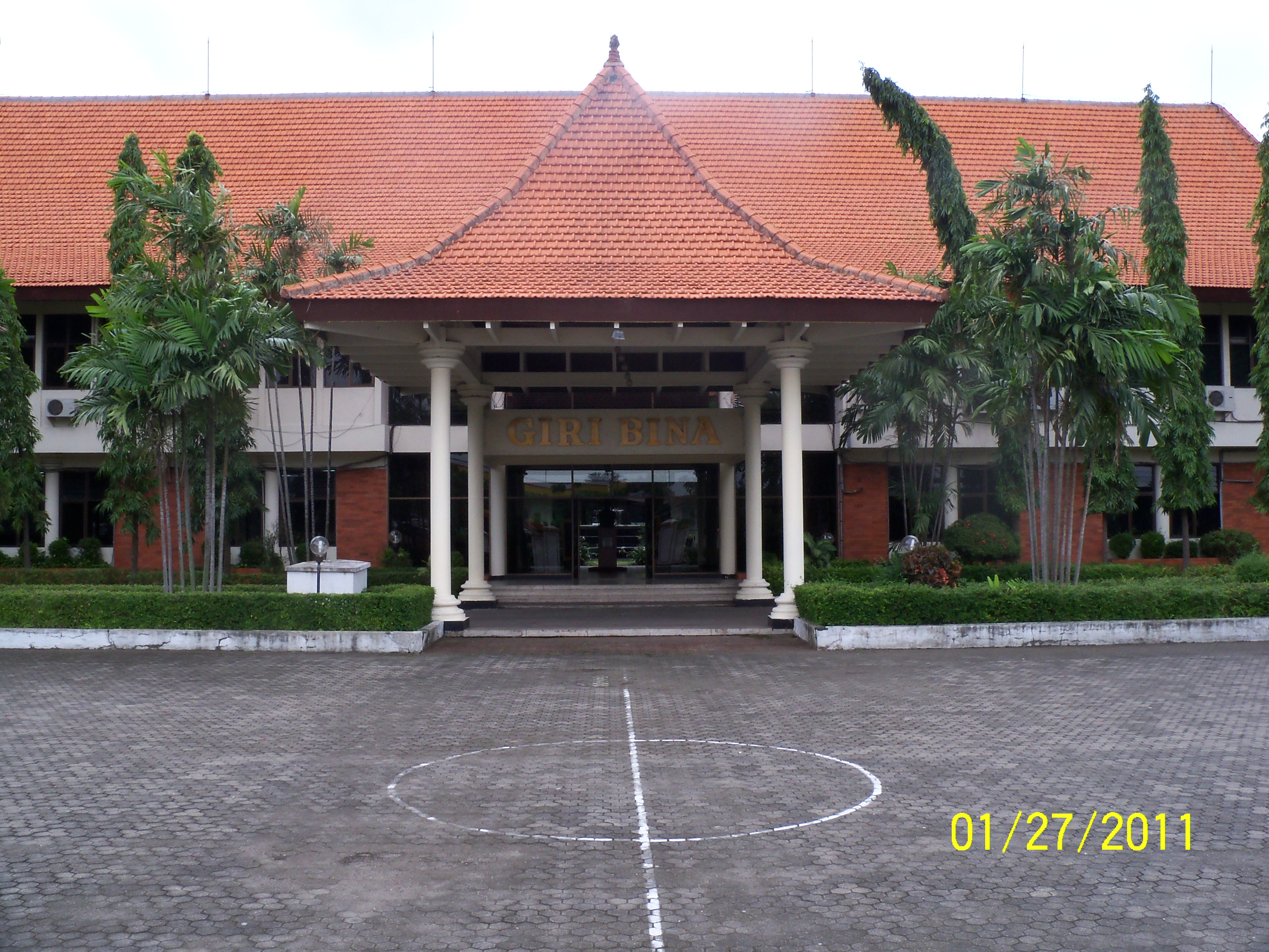 Rectorate of UPN Veteran East Java, Indonesia